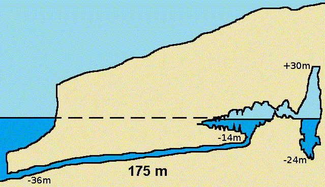 Cosquer Cave